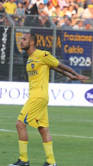 Danilo Soddimo, Frosinone football player